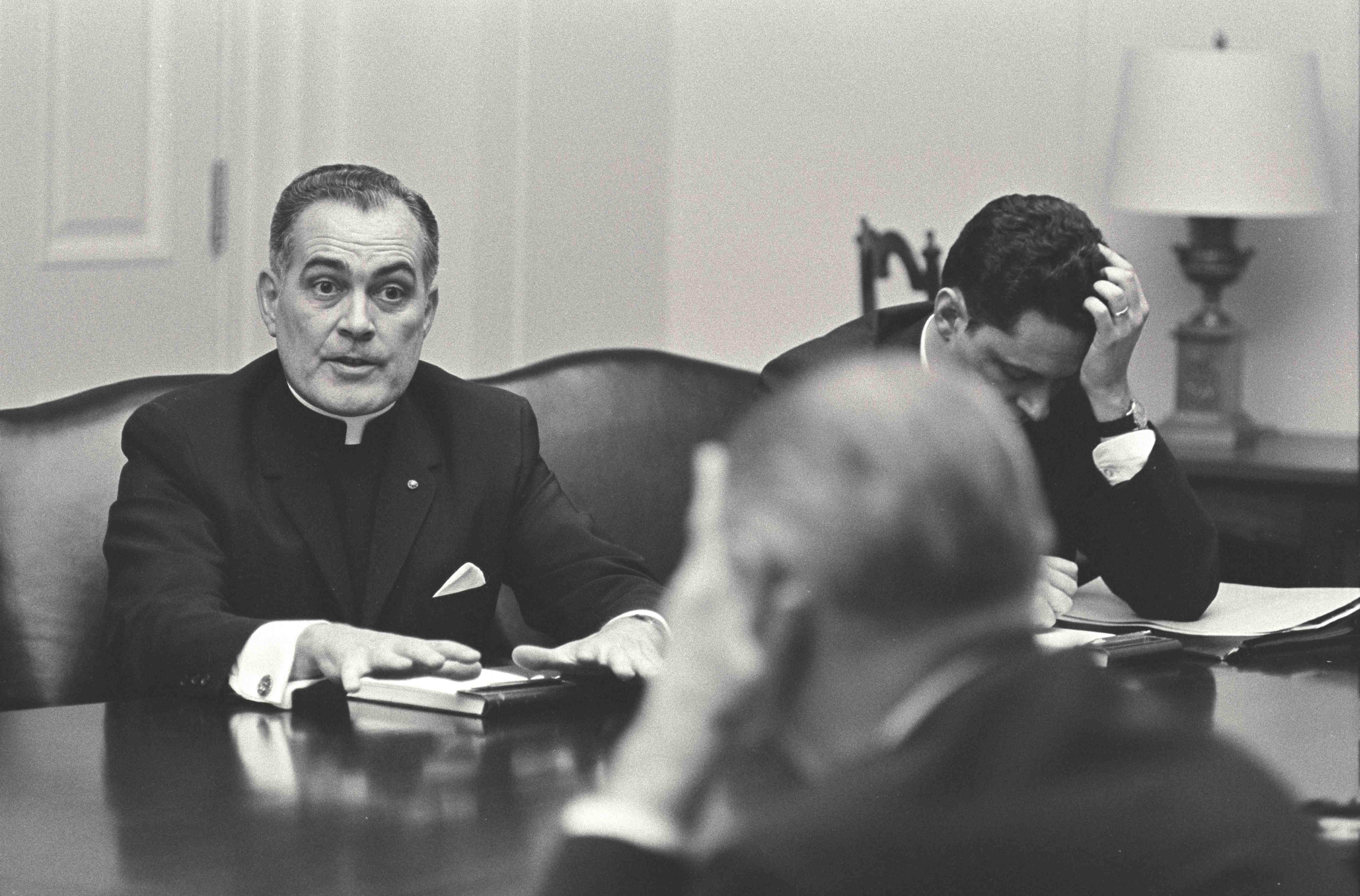 Father Theodore Hesburgh at the Civil Rights Committee Biographical information; received Medal of Freedom from LBJ; LBJ's use of Civil Rights Commission; JFK and civil rights; CRC's first meeting with LBJ; Commission hearings; John Gleason; LBJ's accomplishments in human opportunity/civil rights; White House Conference on Civil Rights; Cliff Alexander; National Science Foundation Board; Jim Webb's acceptance of Administrator of NASA; campus unrest; Vietnam; Perkins Commission; Walt Rostow's Policy Planning Commission; Wise Men; role as Vatican representative on International Atomic Energy Agency; 1956 charter meeting at UN; Frank Folsom.